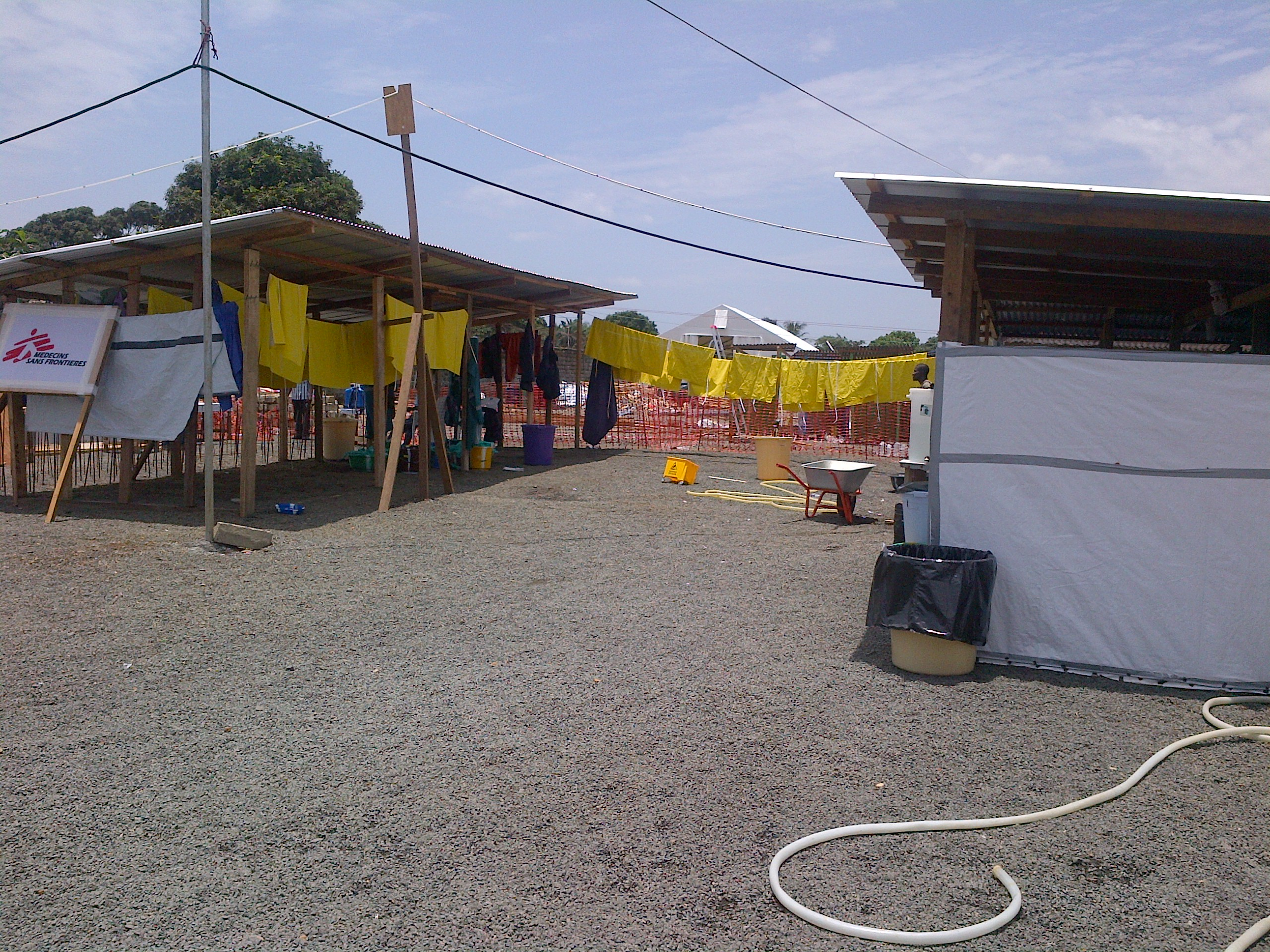 Workers at ELWA-3, MSF's open-air Ebola Treatment Unit (ETU) in Liberia, can work only 45 minutes in their personal protective equipment (PPE). The only items retained are rubber boots, gloves and aprons, which are sprayed or laundered and dried. For more information on Ebola and what CDC is doing, please visit